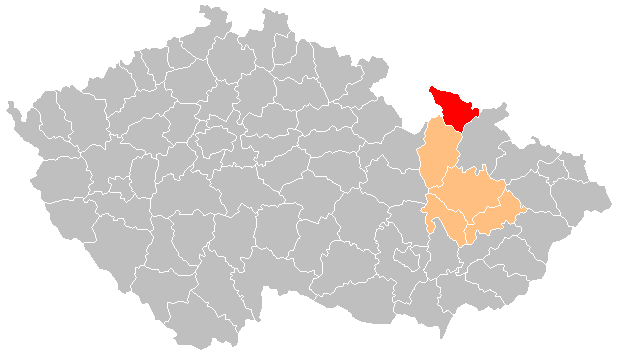 District of Jeseník